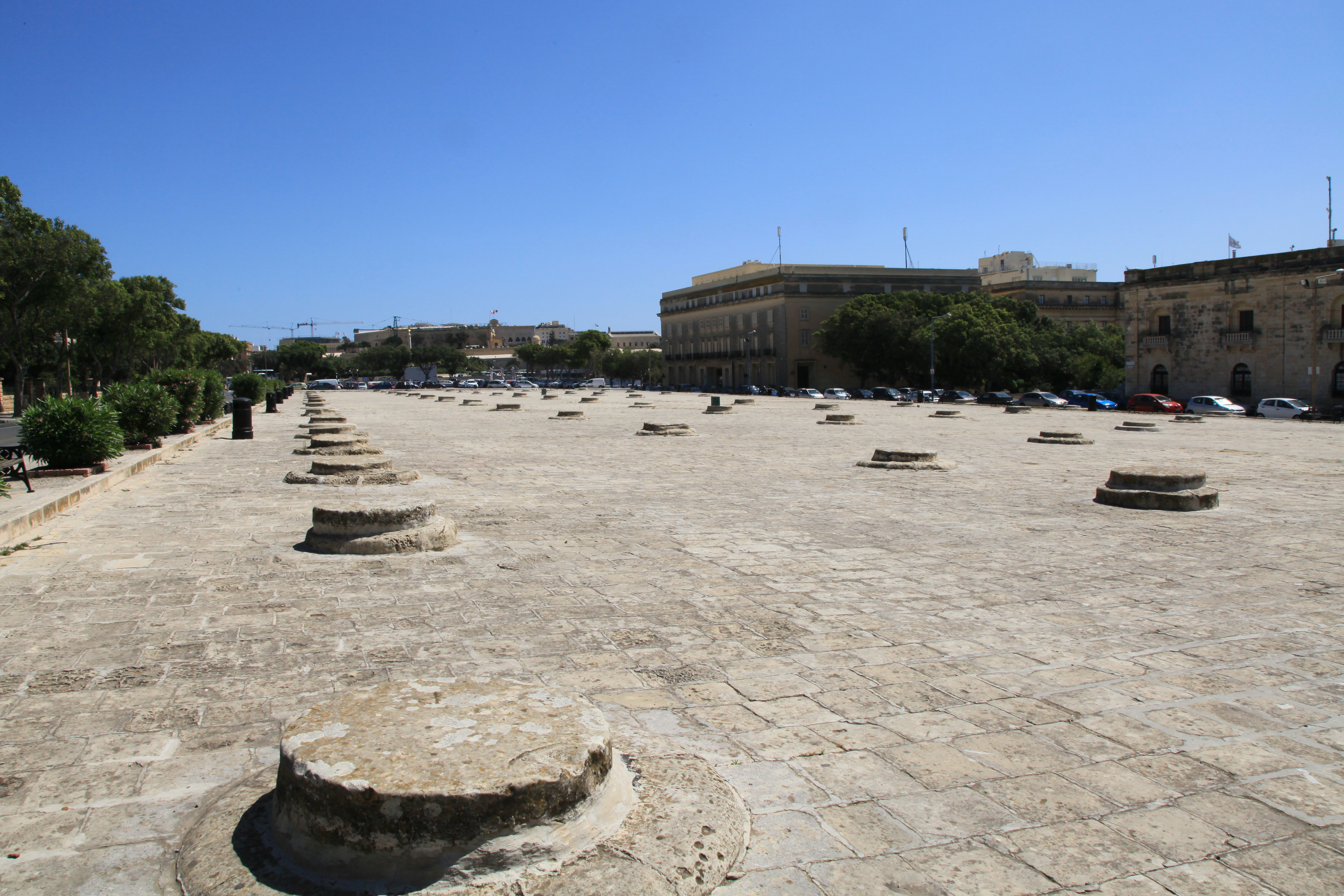 The Granaries at Pjazza San Publju with the Catholic Institute in background in Floriana, Malta